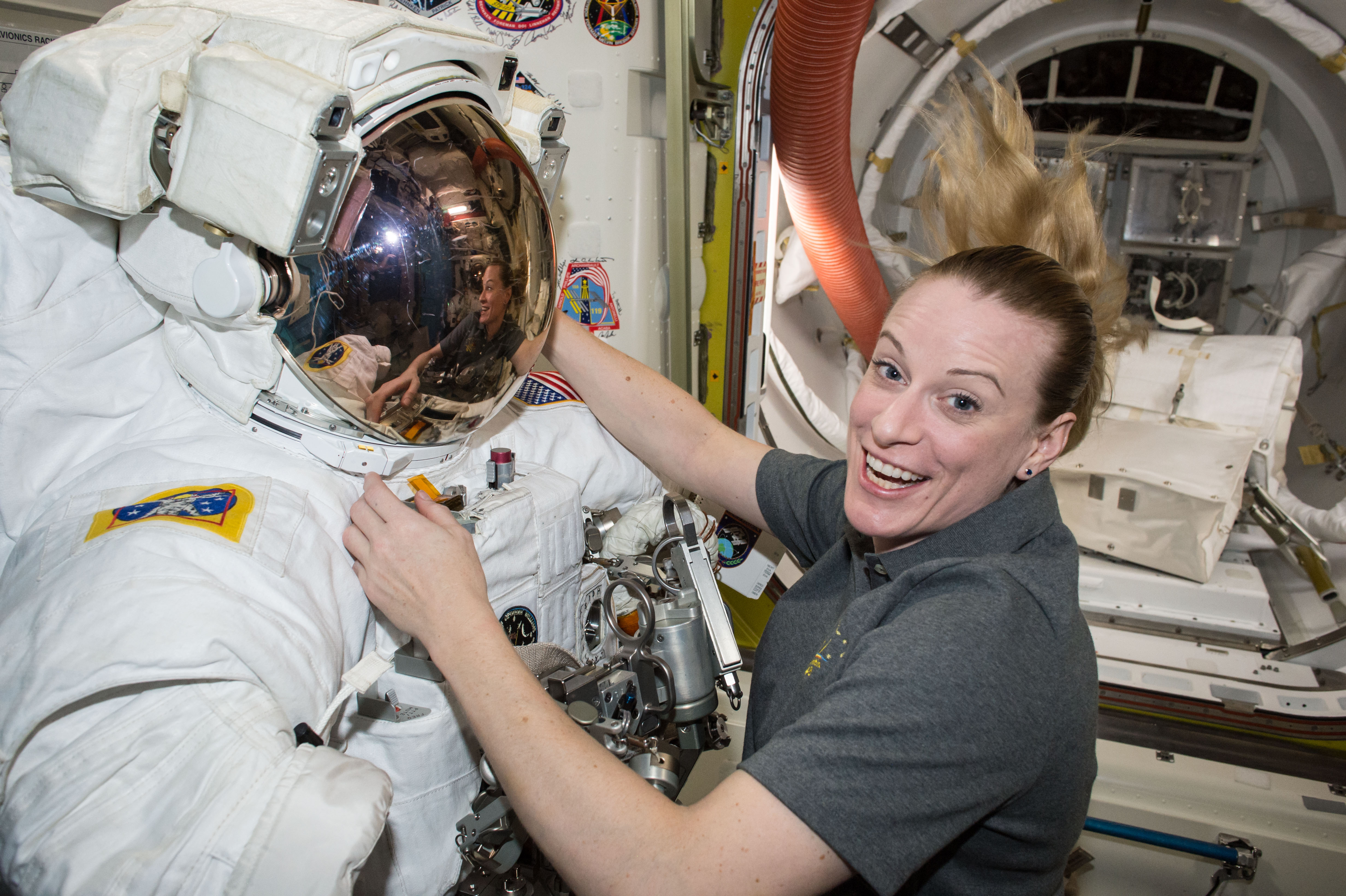 NASA astronaut Kate Rubins prepares for a spacewalk (EVA) on board the International Space Station. She and partner crewmember Jeff Williams also of NASA will work on installation of a new International Docking Adapter. The work is scheduled to start on Aug 19, 2016. The work of spacewalkers Williams and Rubins will enable future crew vehicles from Boeing and SpaceX to dock on the station.